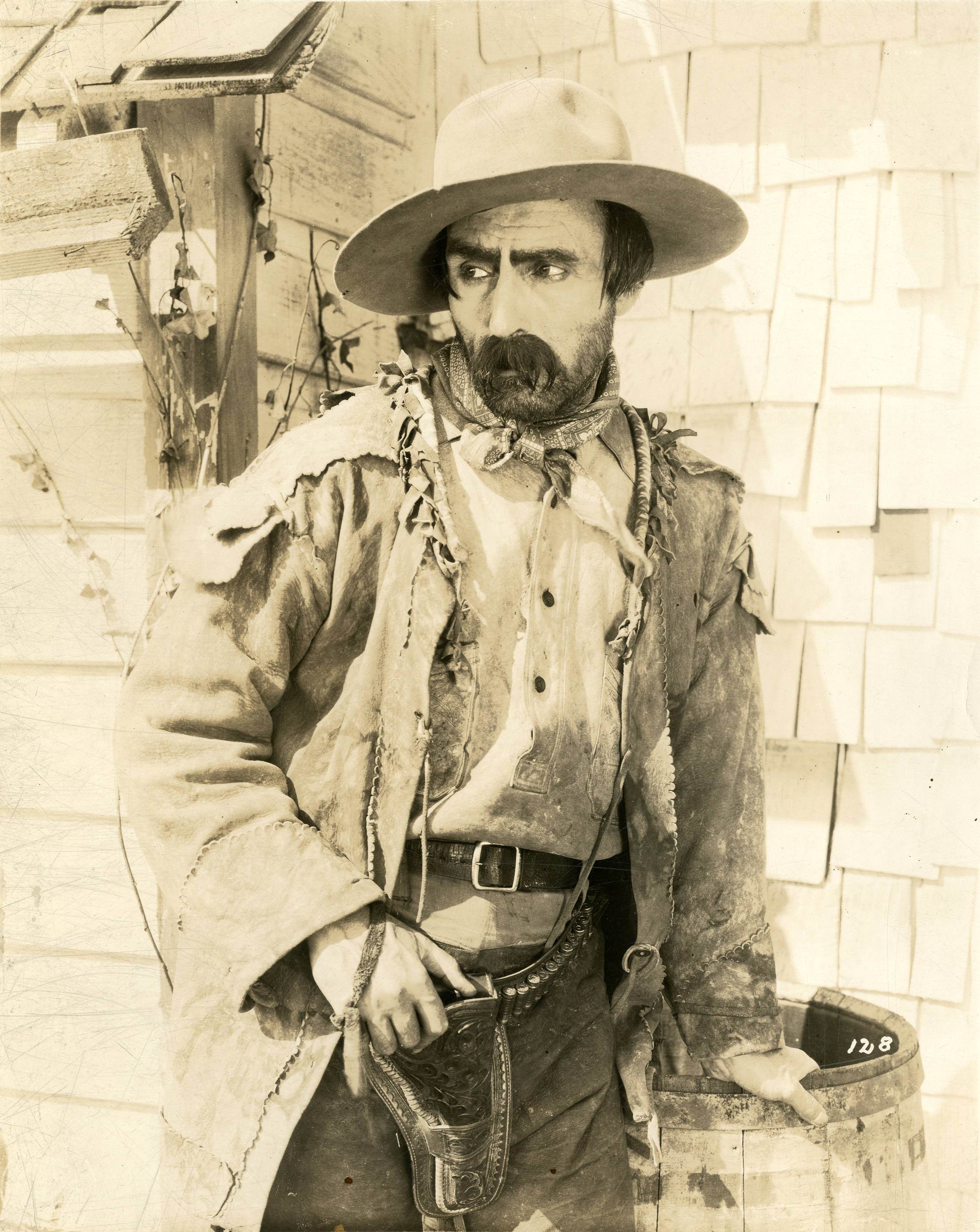 Frank Leigh, silent film actor, the American silent western film Bob Hampton of Placer (1921). Subjects: actors